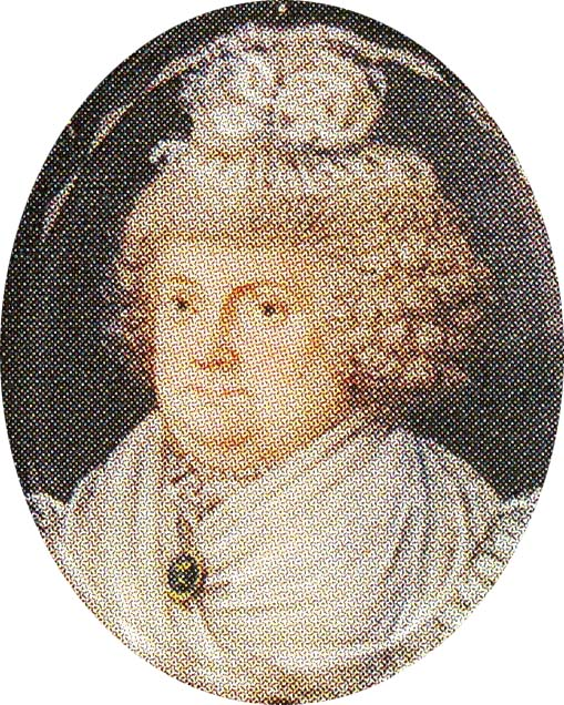 Auguste of Saxe-Gotha-Altenburg